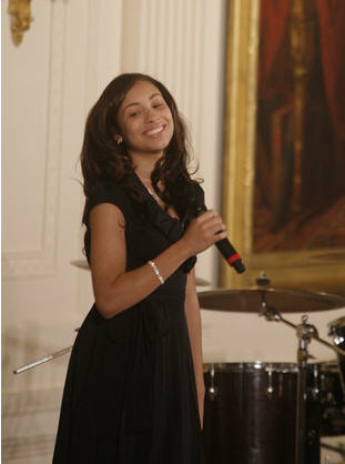 Singer Karina Pasian stands before a portrait of George Washington as she performs for President George W. Bush and guests Friday, June 22, 2007 in the East Room of the White House, in celebration of Black Music Month.